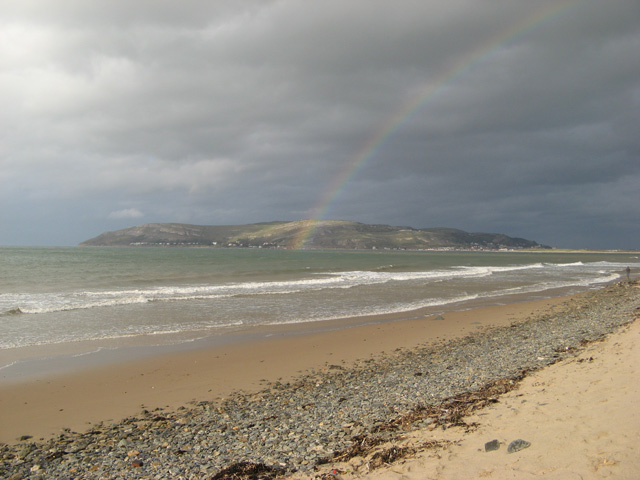 Conwy Bay rainbow The light rain is not obvious in this picture of the beach emerging with the ebbing tide, but the sunlight is giving us a fine rainbow.